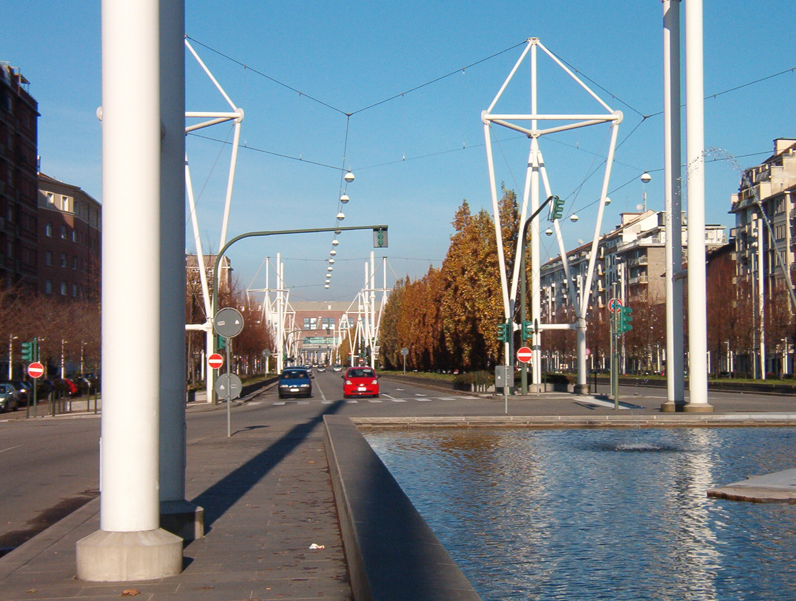 Boulevard Spina Centrale - Turin - Piedmont - Italy